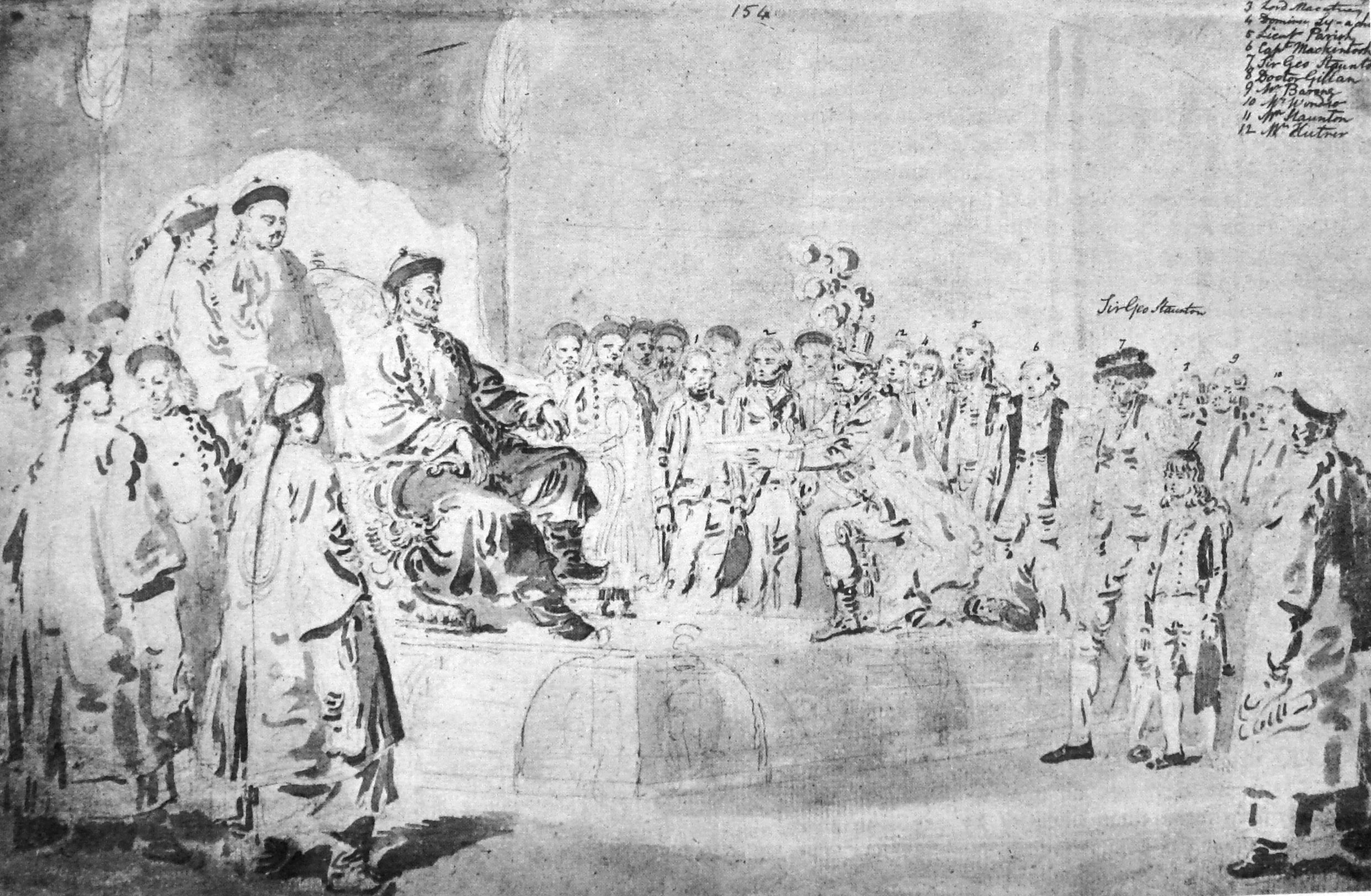 Lord Macartney Embassy To China 1793. Macartney's first meeting with Qianlong. The boy on the right is the eleven-year-old George Staunton who impressed the Emperor with his spoken Chinese.